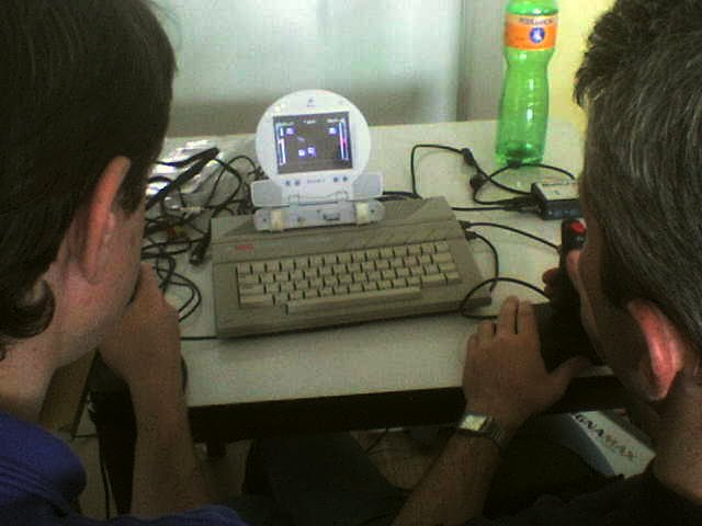 two people playing a game for Atari 800 XE